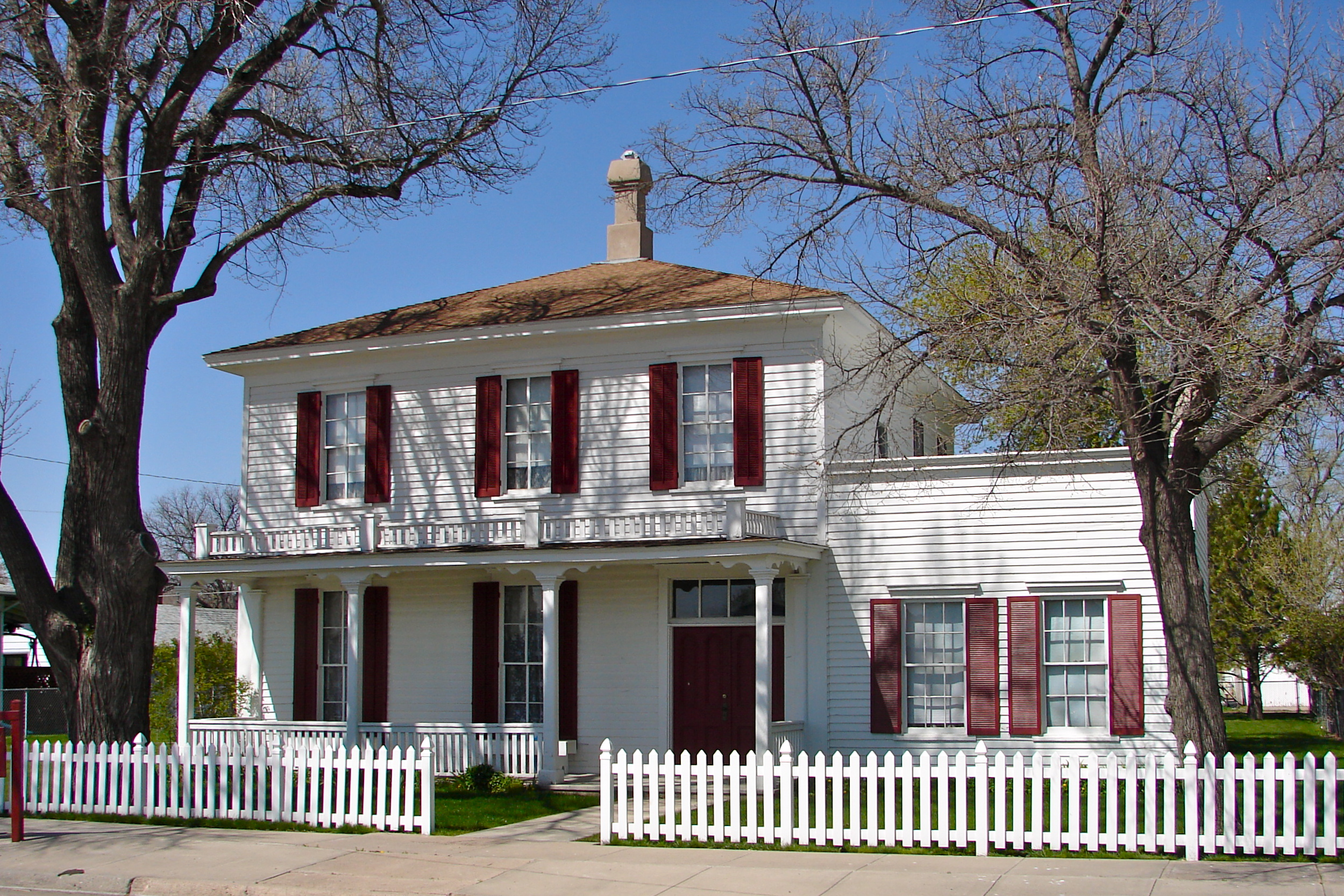 Commander's quarters in Fort Sidney Historic District on the NRHP since March 28, 1973. The Historic District is roughly bounded by 6th and 5th Aves., Linden and Jackson, in Sidney, Nebraska (east of the tracks). There appears to be only 3 structures in the HD: officers quarters, commander's quarters, and an octagonal powder magazine. Museum in the officer's quarters seems to be semi-permanently closed.